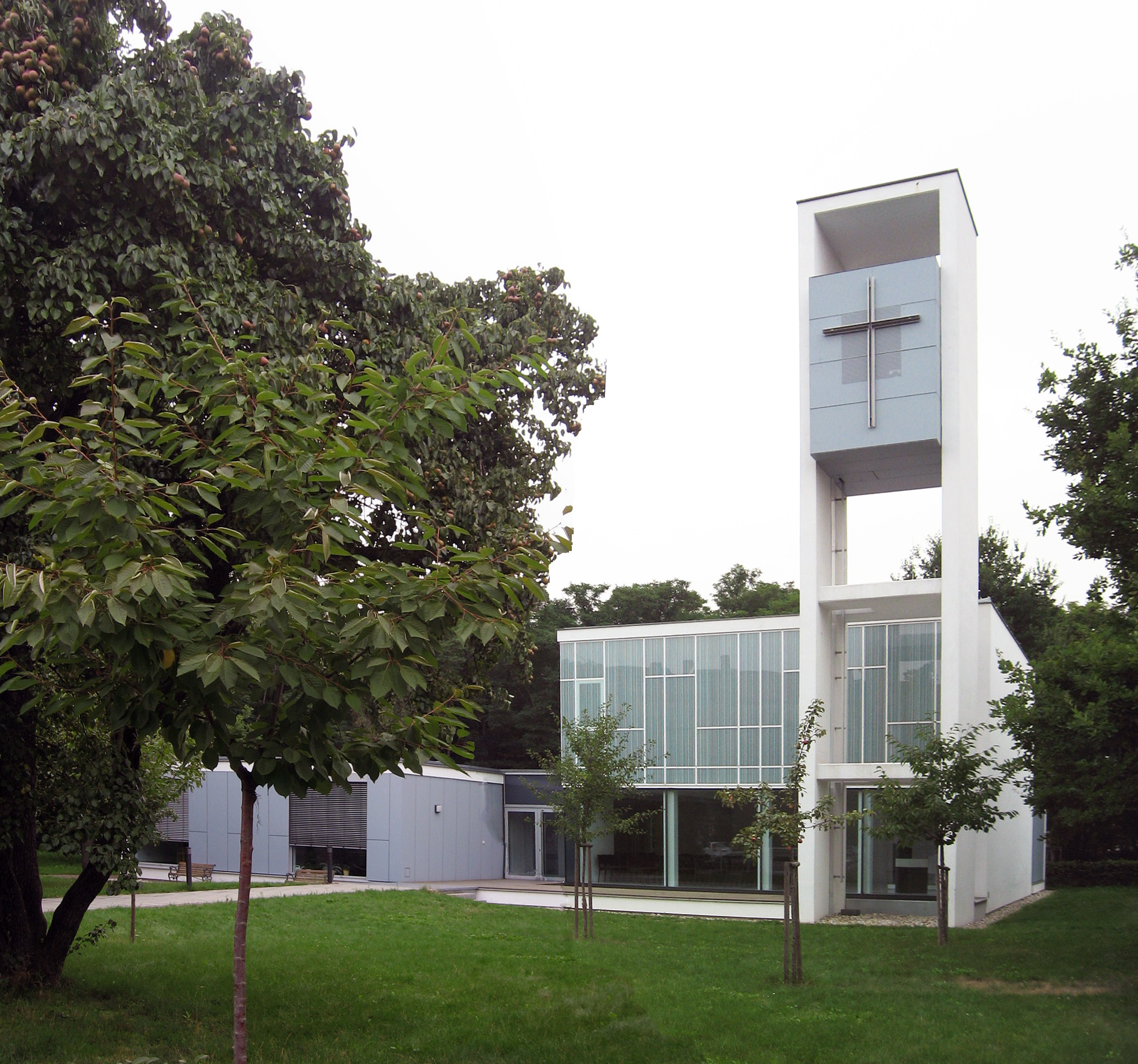 Church of the Redeemer in Leipzig, Dauthestrasse 1 a